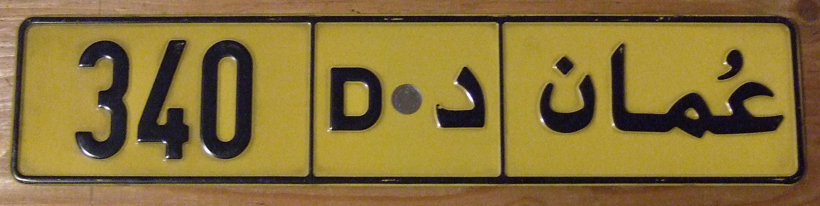 License plate of Oman.